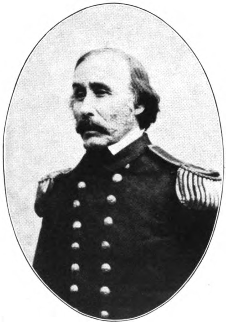 Captain Gilbert Knapp, founder of Racine